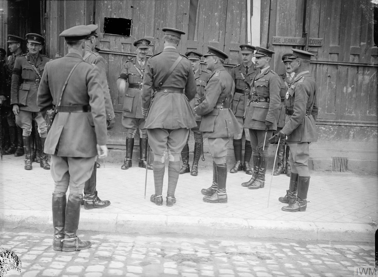 THE OFFICIAL VISITS TO THE WESTERN FRONT, 1914-1918 General Hubert de la Poer Gough, the Commander of the Fifth Army, presenting officers to Albert I, King of Belgium, at Albert, 16th May 1917. General William Birdwood, the Commander of the ANZAC, on the right. Field Ambulance sign in background bears the 34th Divisional mark.